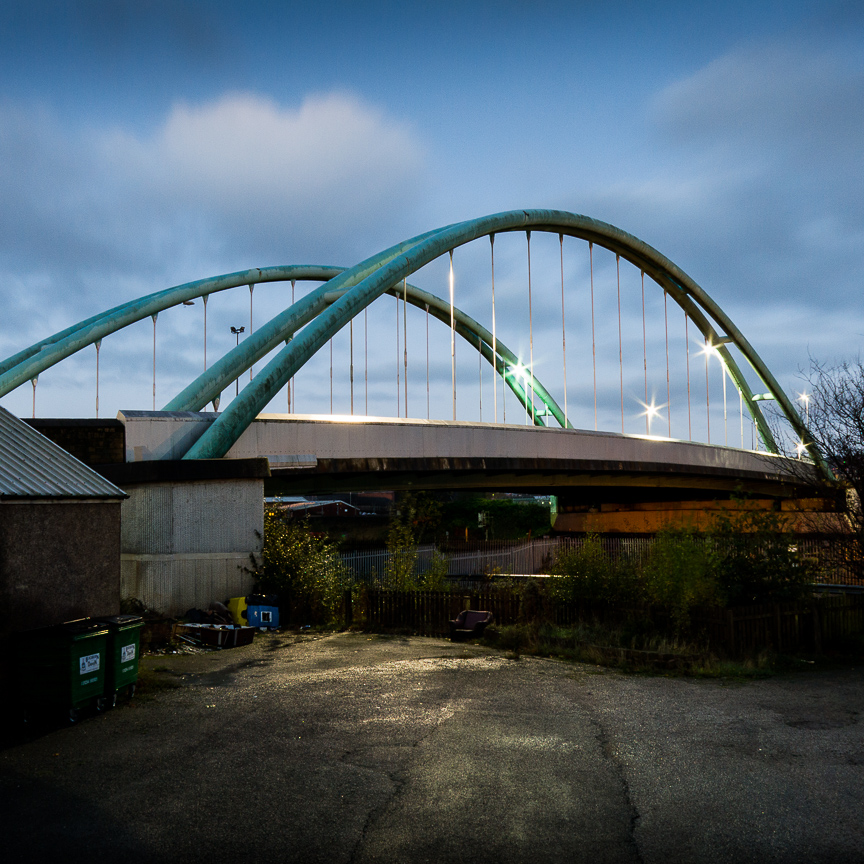 A photograph of Blackburn's Wainwright Bridge, taken in October 2017. For further information